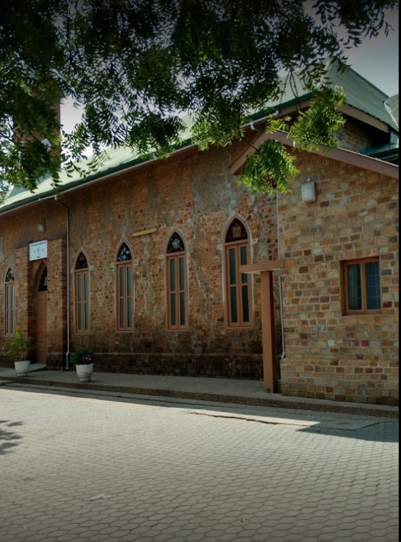 Personal photo of a Ghanaian historic church, Osu Ebenezer Presbyterian Church